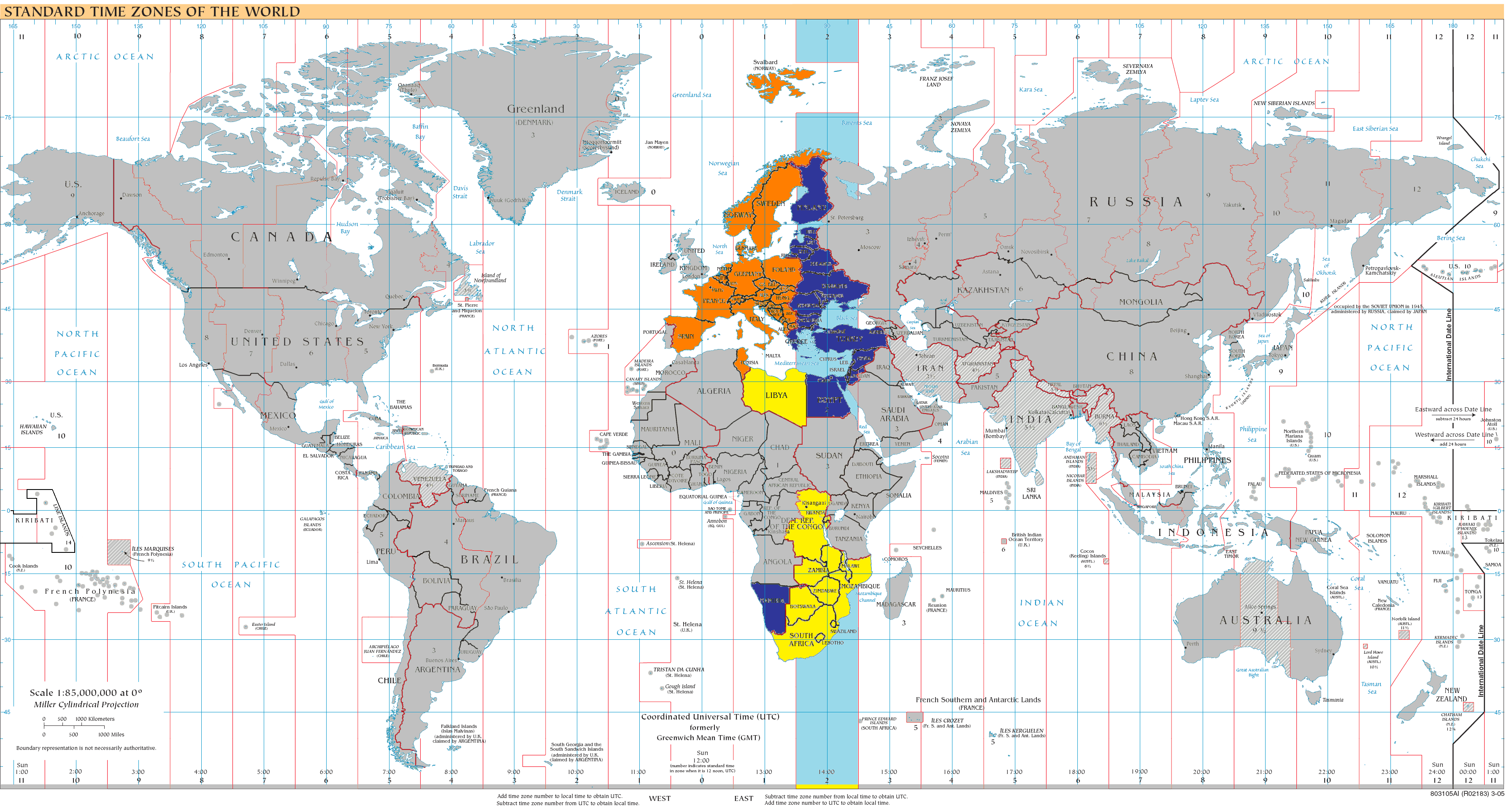 World map of time zones as of 2008, on the Miller Cylindrical Projection and with highlighted UTC+2 zone. Dark Blue - UTC+2 during Northern Winter / Southern Summer Orange - UTC+2 during Northern Summer / Southern Winter Yellow - UTC+2 all year round Light Blue - UTC+2 sea areas